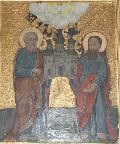 On a XVII-th century icon the monastery is represented